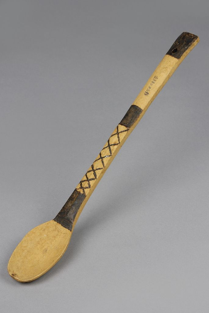 木製作的湯匙